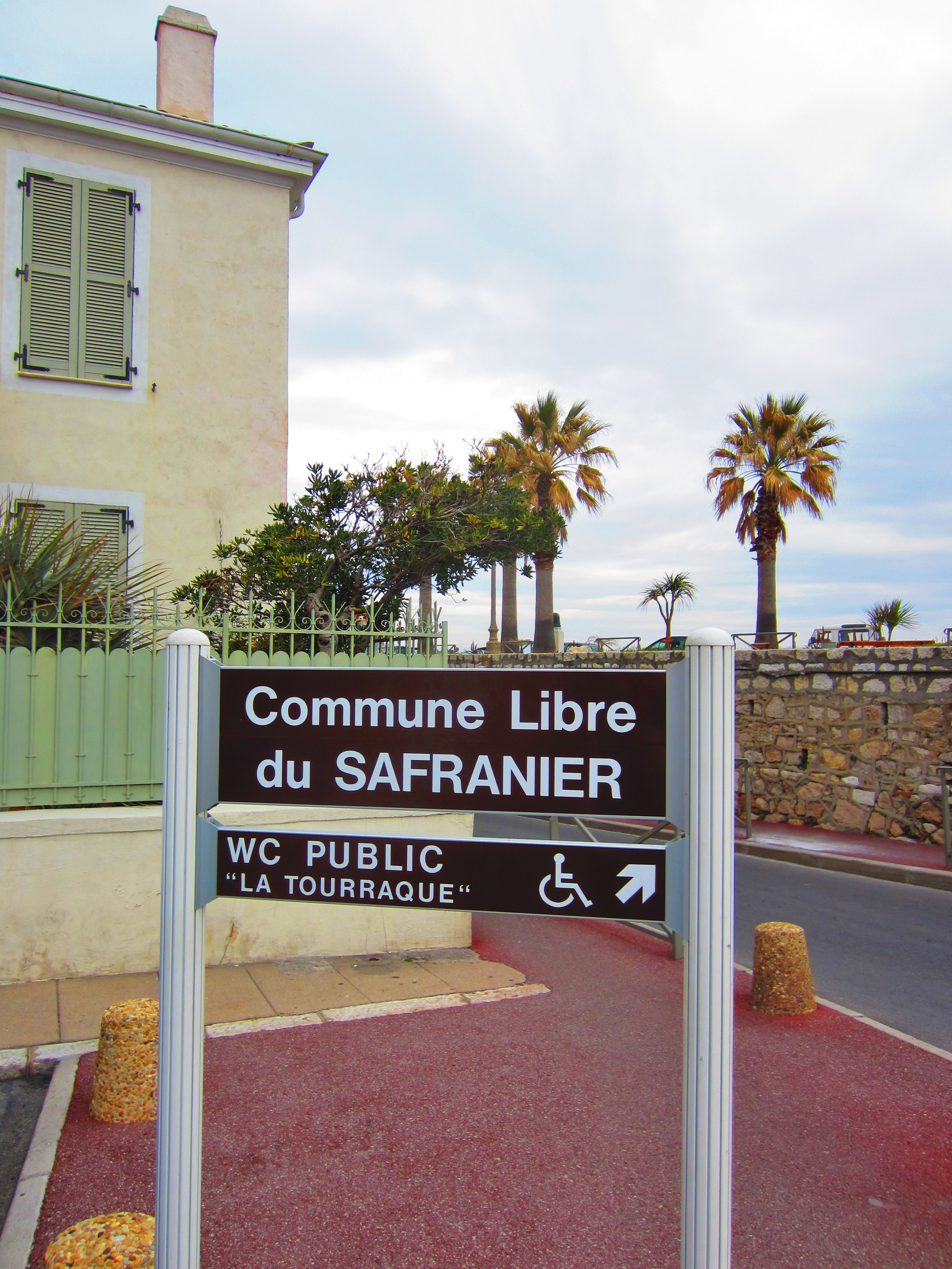 Antibes safranier